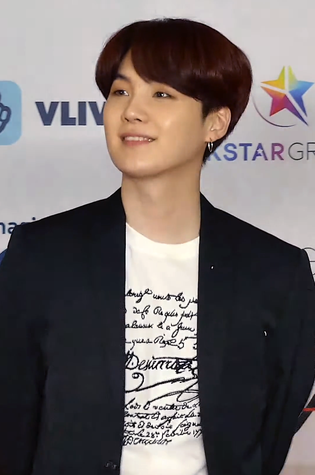 Suga at the 2018 Asia Artist Awards